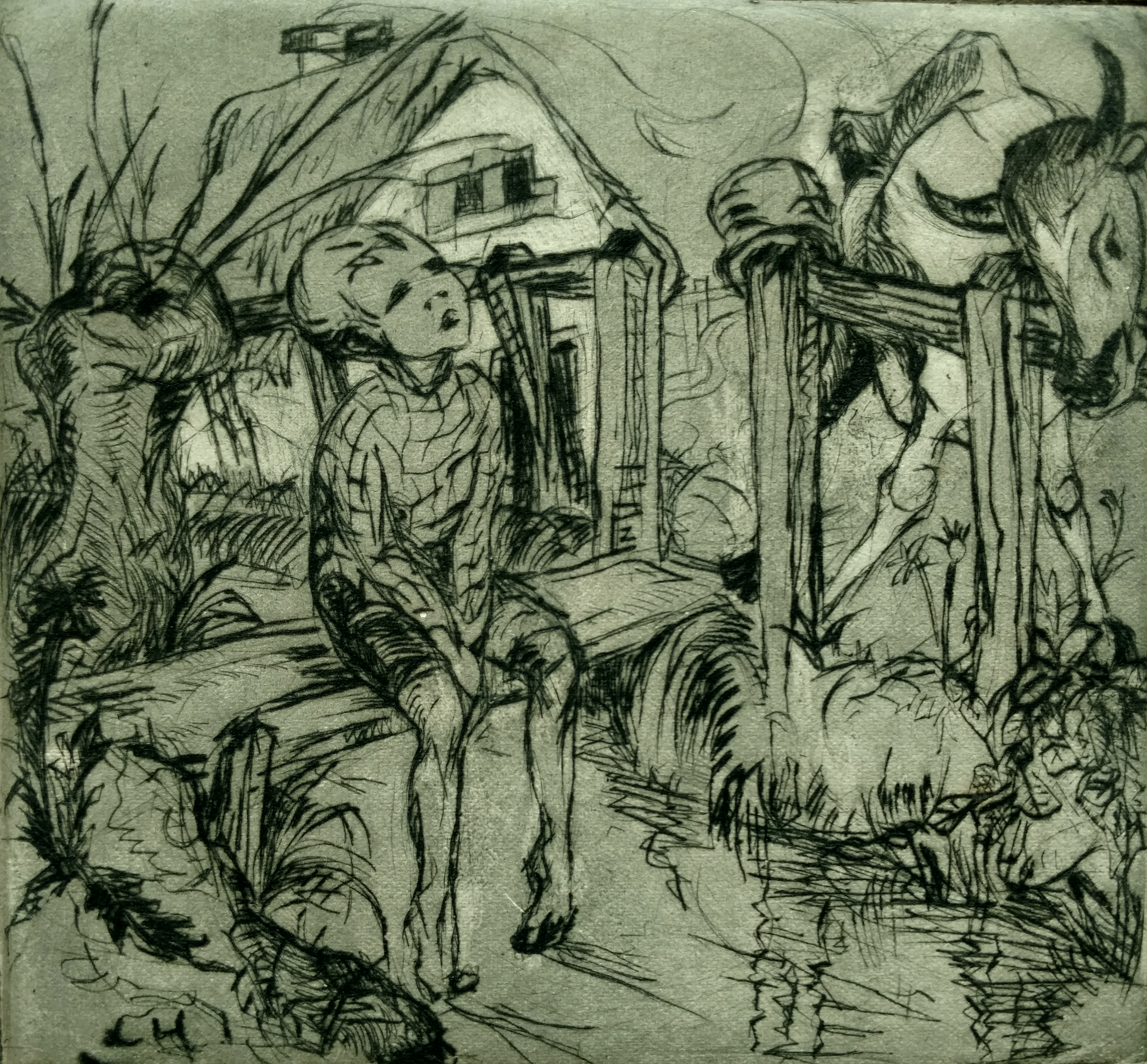 Etching of Liselotte Schramm-Heckmann from 1922